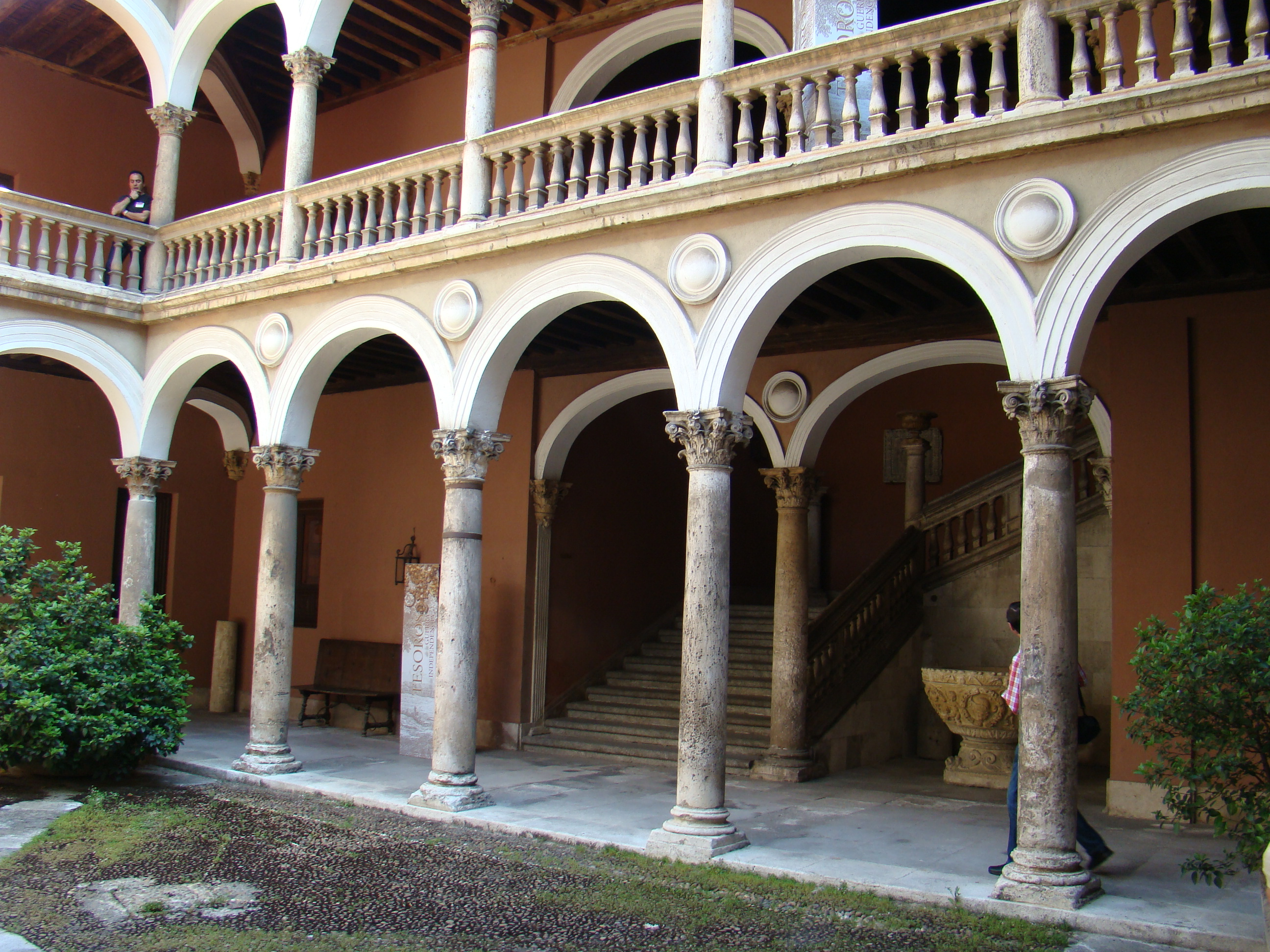 Classicist palace named Fabio Nell in Valladolid, Spain. Yard built under the direction of Pedro de Mazuecos el Mozo and the making of the sculptor Francisco de la Maza who carves coats of arms and decoration reliefs.